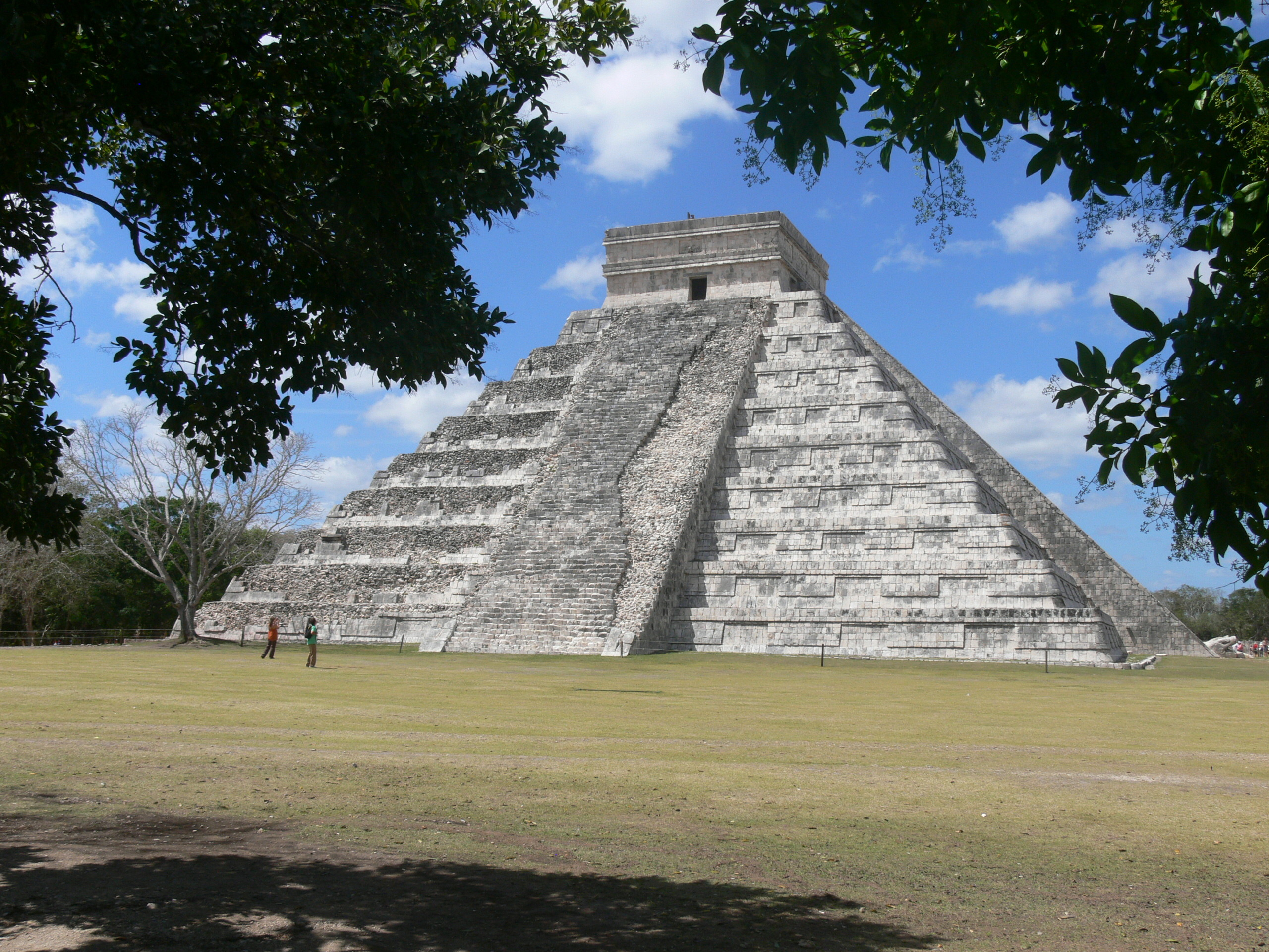 Chichén Itzá. Castillo or Pyramid of Kukulkan.